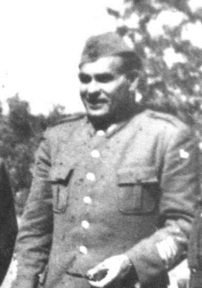 Sreten Žujović (Serbian Cyrillic: Сретен Жујовић) (24 June 1899 - 11 June 1976)